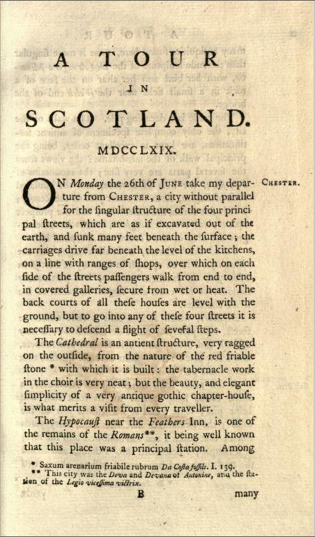 From A Tour in Scotland MDCCLXIX by Thomas Pennant, printed by John Monk, 1771. Page 1 of main text: "On Monday the 26th of JUNE take my departure from CHESTER, a city without parallel for the singular structure of the four principal streets, ..."